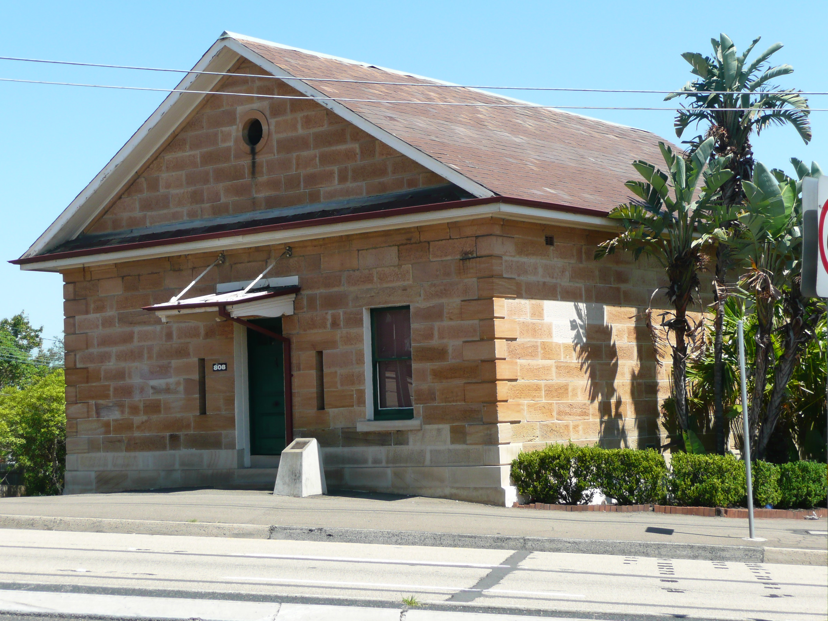 Police station, Victoria Road, Ryde, Sydney